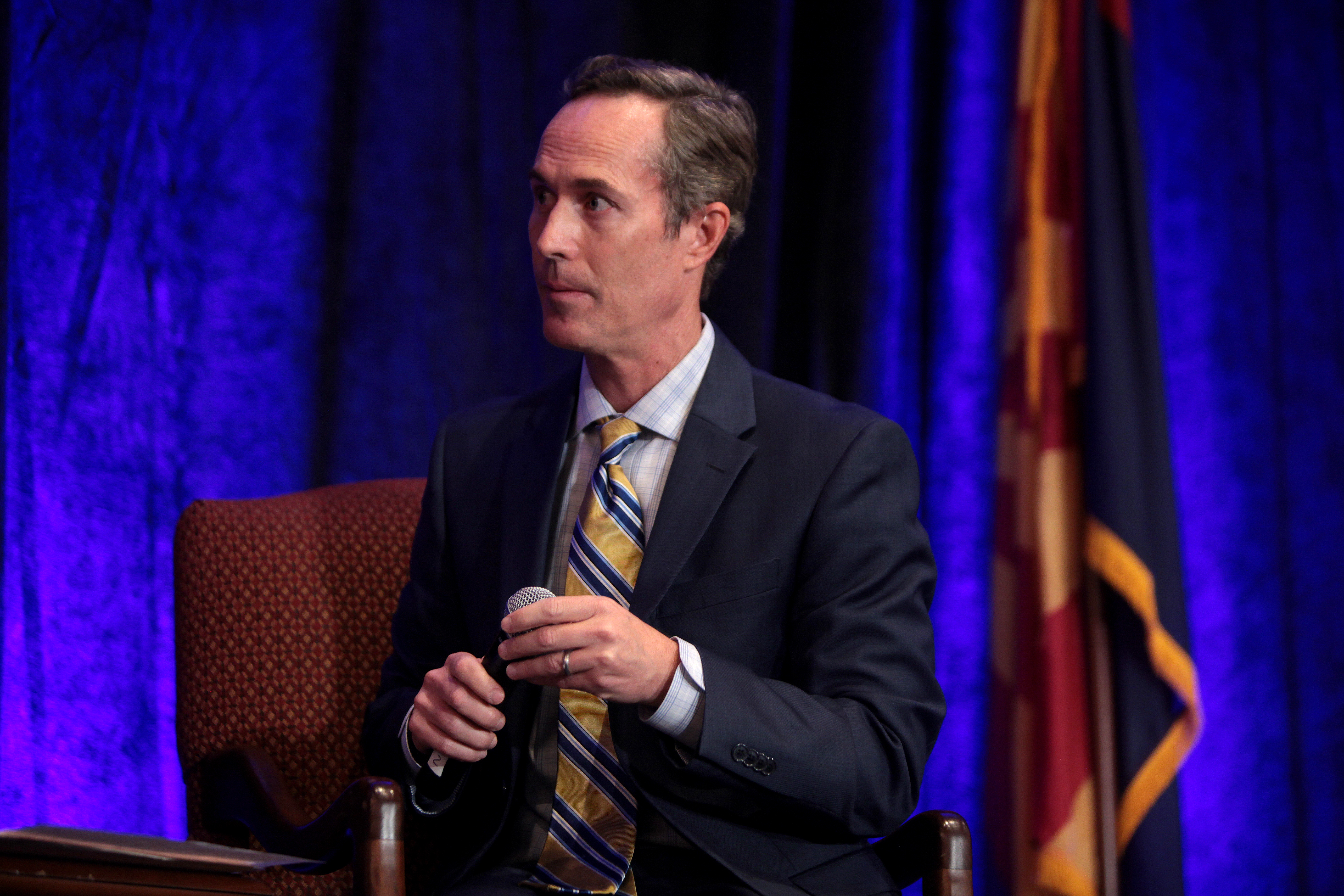 Sean McLaughlin speaking at the Arizona Chamber of Commerce & Industry's Leadership Series breakfast in Scottsdale, Arizona.